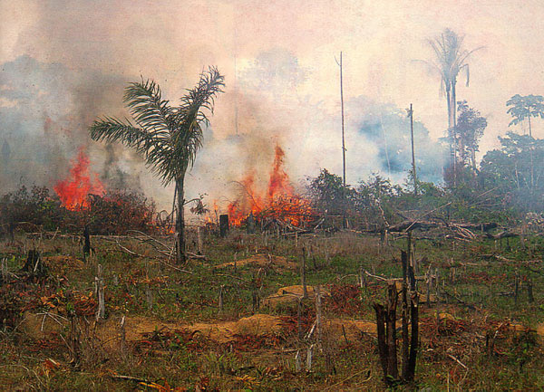 Burning rainforest in Brazil